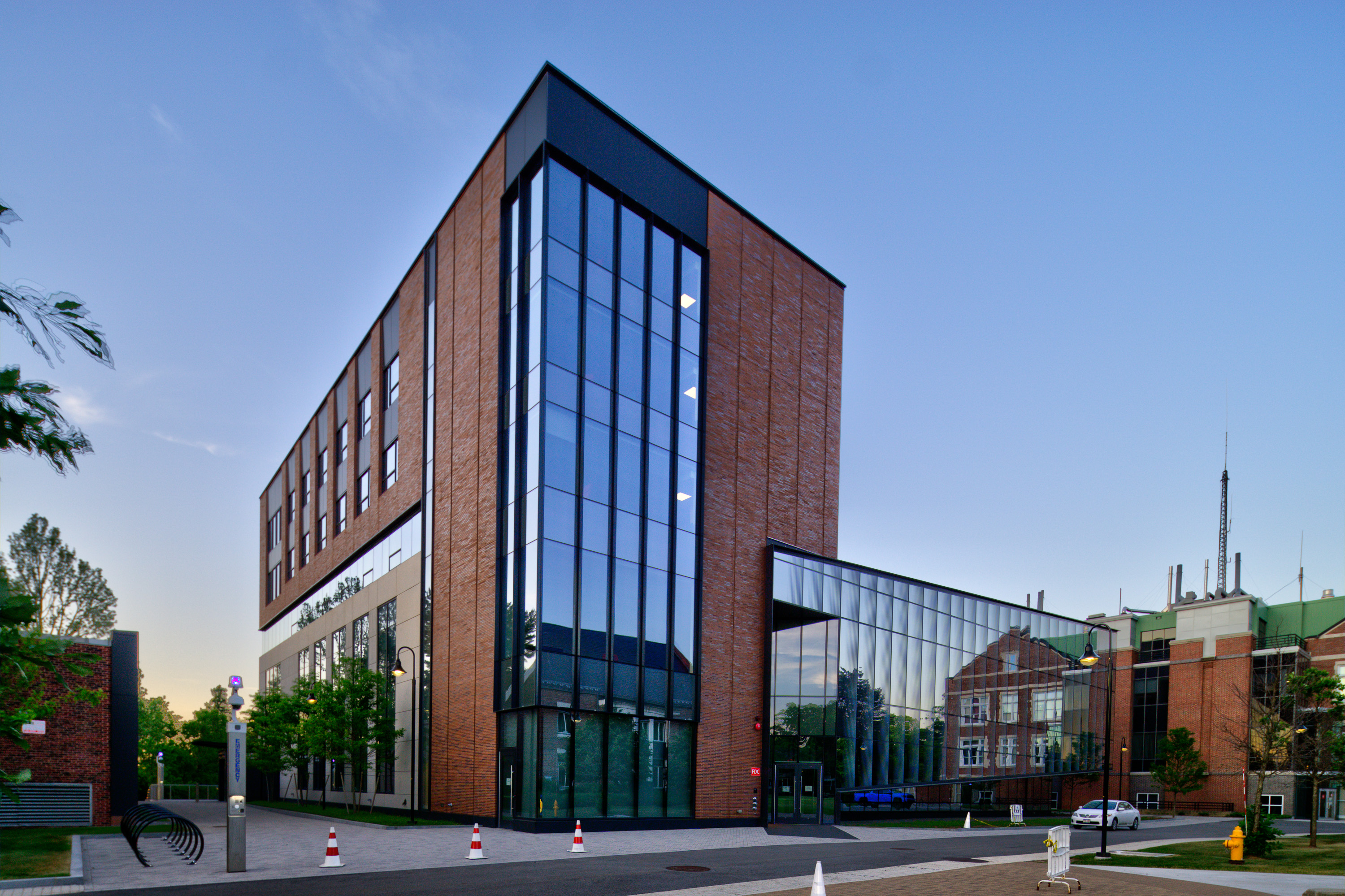 Foisie Innovation Studio, Worcester Polytechnic Institute. Designed by Gensler. Opened August 2018.